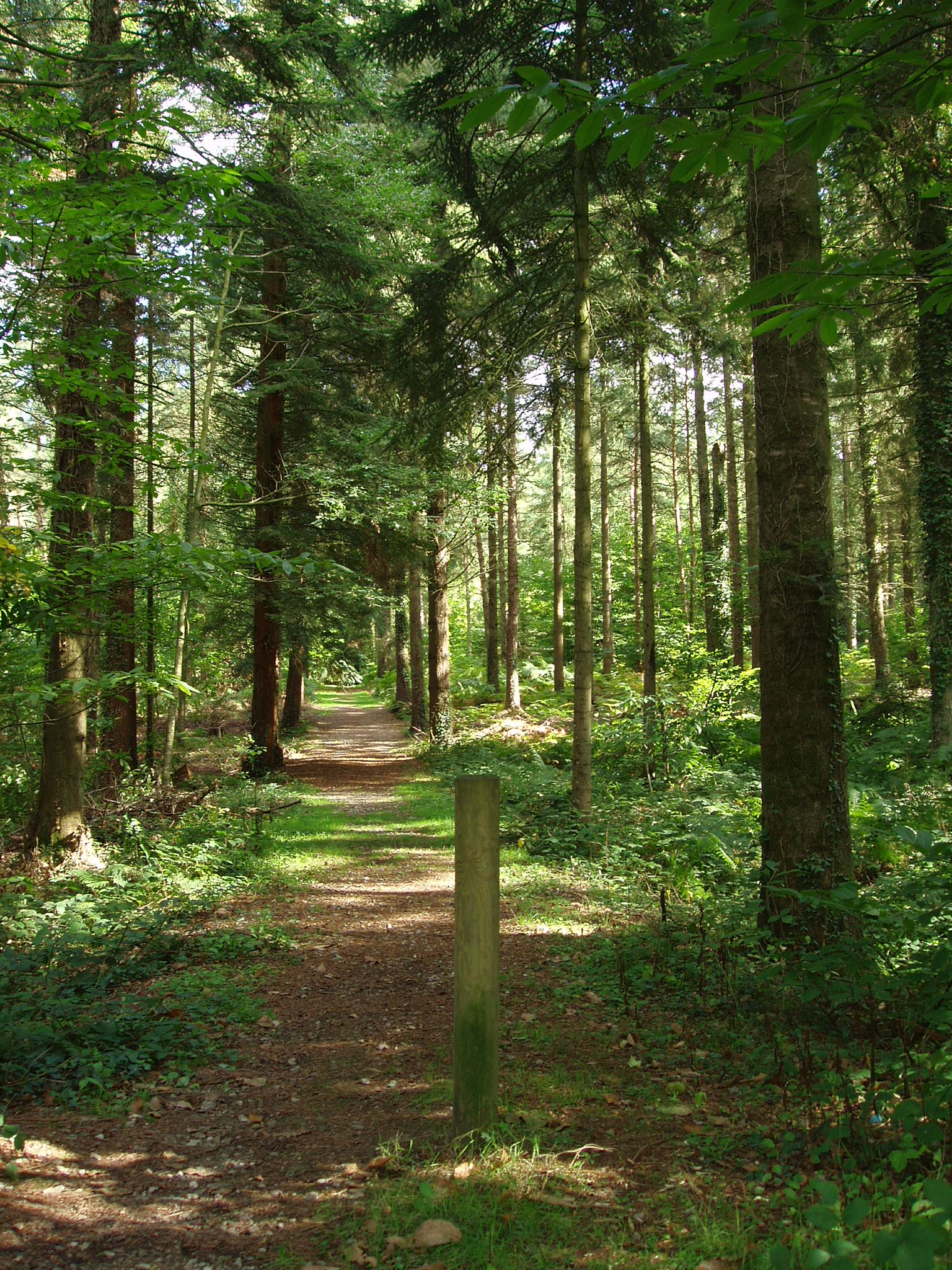 Forêt de Montfort-sur-Meu